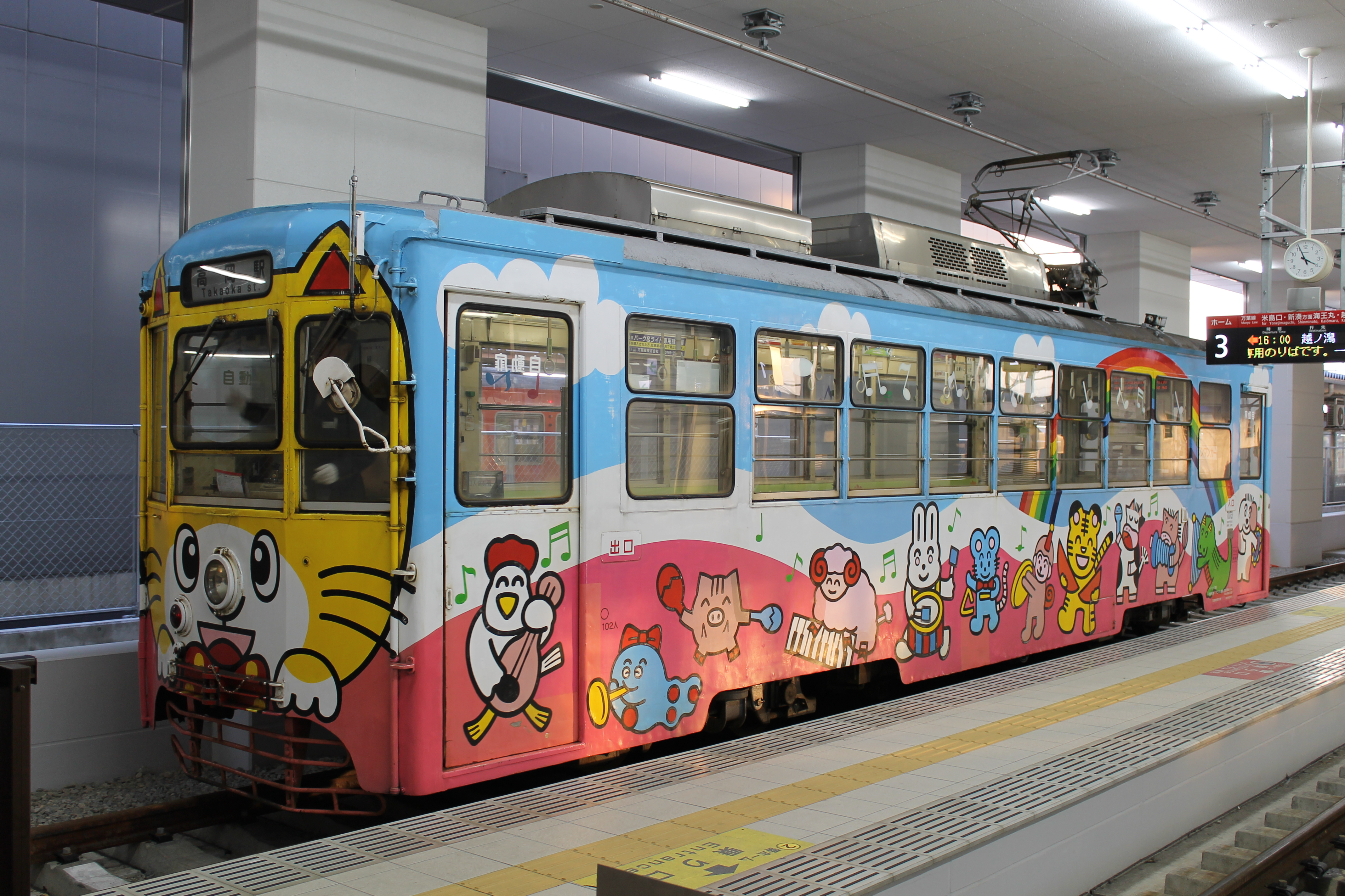 Man-yo line No. 7073 (at Takaoka)